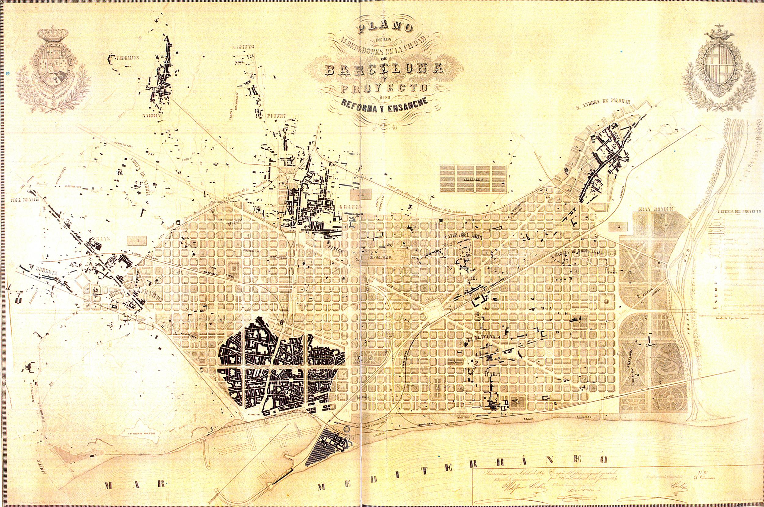 Enlargement map of Barcelona. Map of the neighborhoods of the city of Barcelona and project for its improvements and enlargement, 1859.